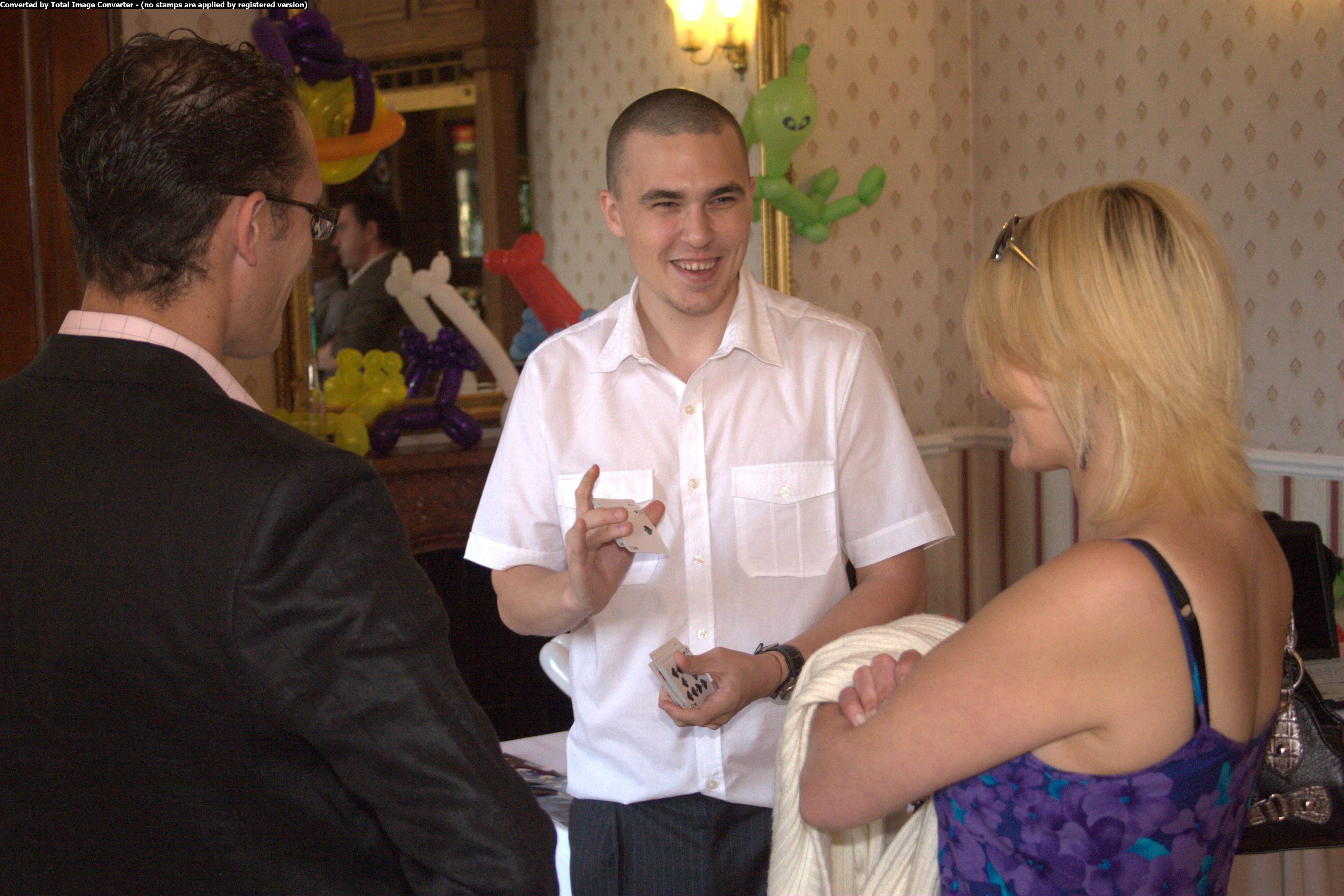 Andrew Nunn, professional close up magician. Born 7th October 1986. Performs magic with cards, coins and other objects. Available for hire for weddings, parties and corporate functions.